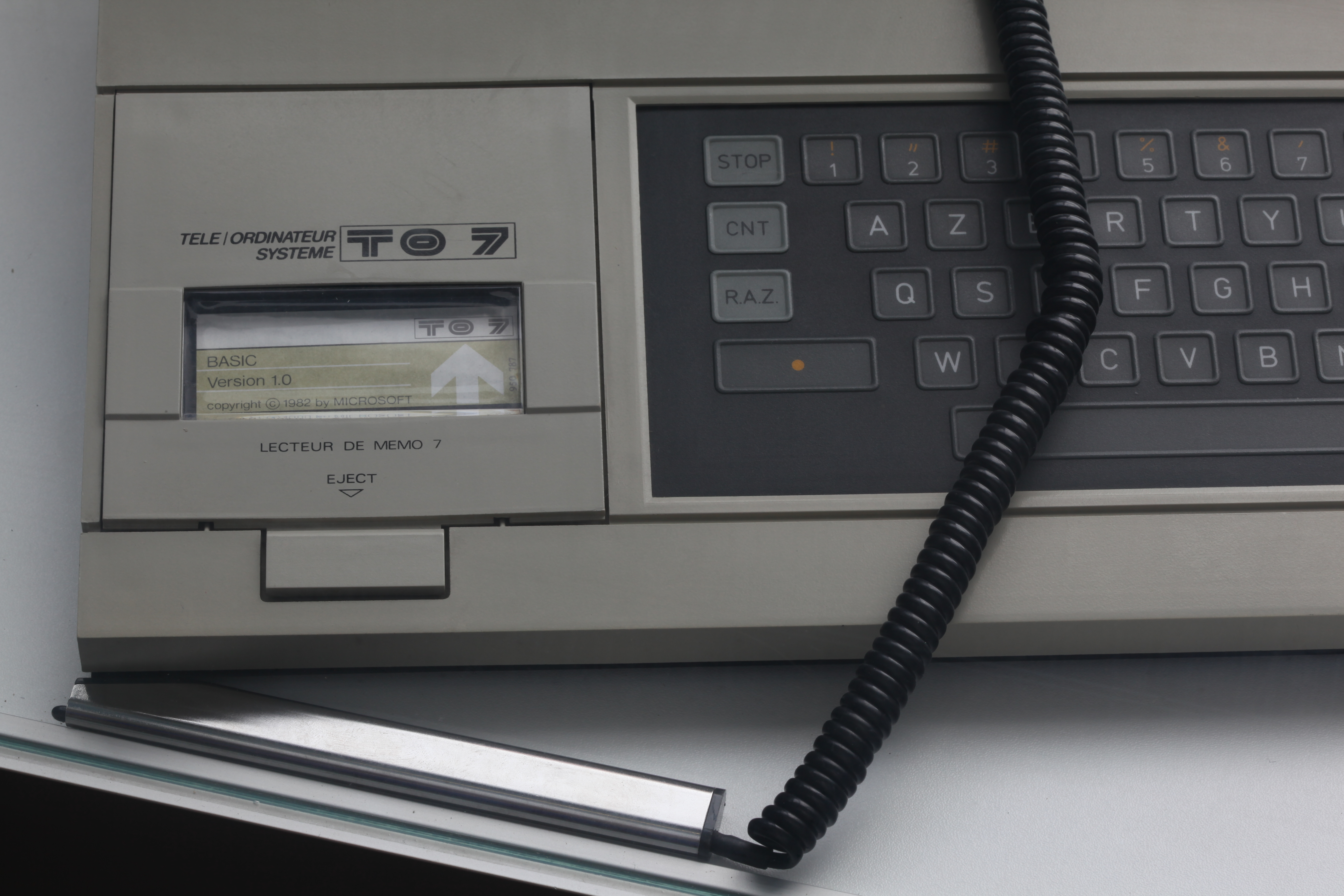 Thomson TO7 computer. On display at the Musée Bolo, EPFL, Lausanne. The making of this document was supported by Wikimedia CH.(Submit your project!) For all the files concerned, please see the category Supported by Wikimedia CH.